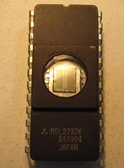 2732 EPROM memory manufactured in 1984